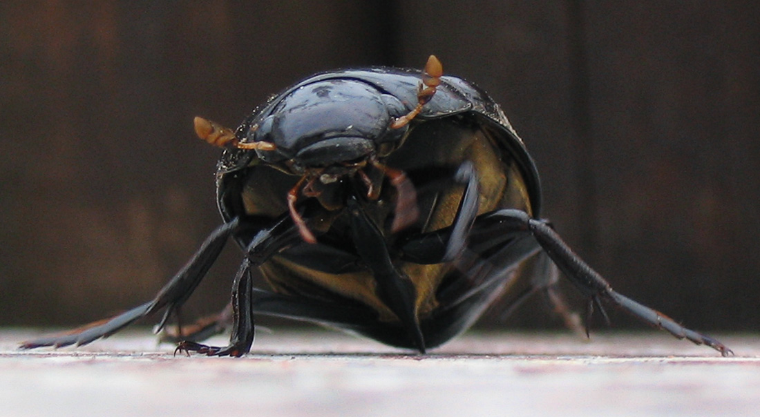 An adult Hydrophilus piceus